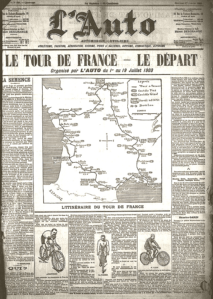 La Une du quotidien L'Auto, lors du départ du premier tour de france